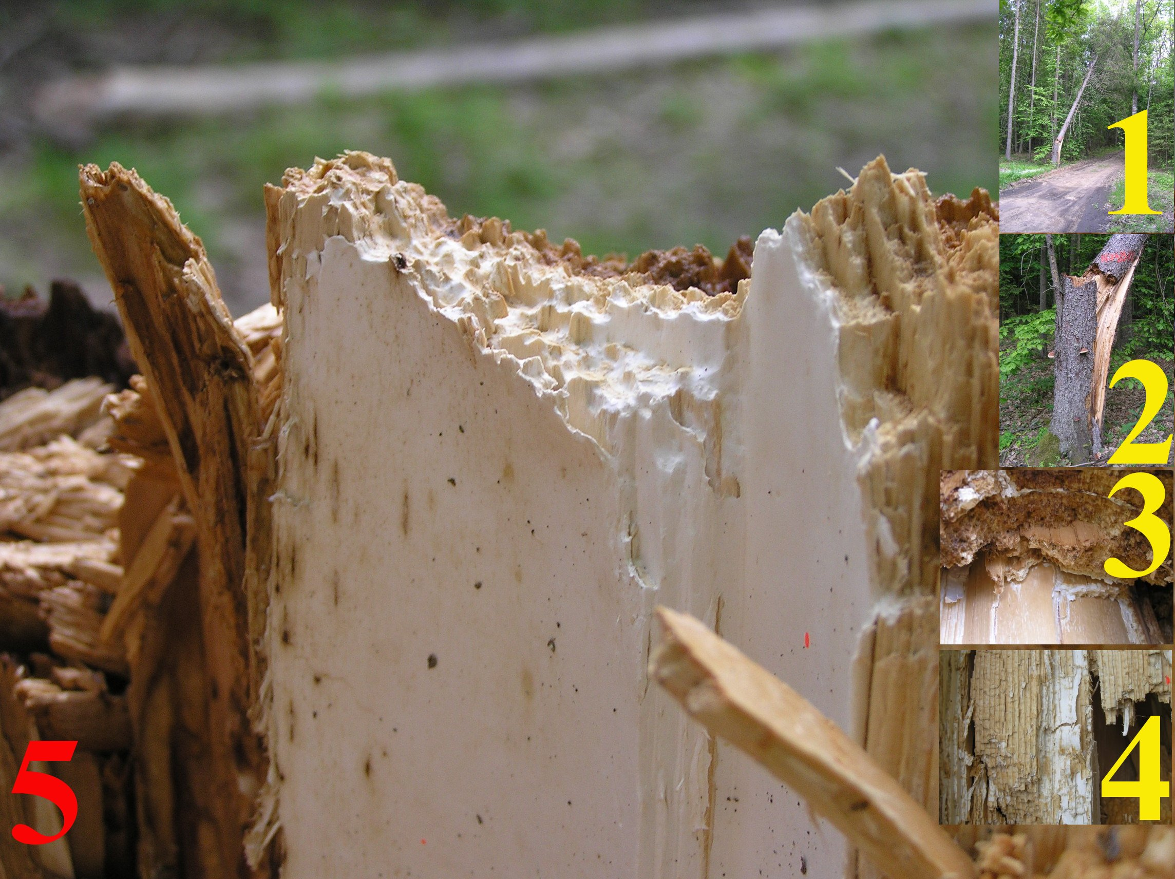 Snag tree with Fomitopsis pinicola with white rot on Picea abies, Białowieża forest, Poland